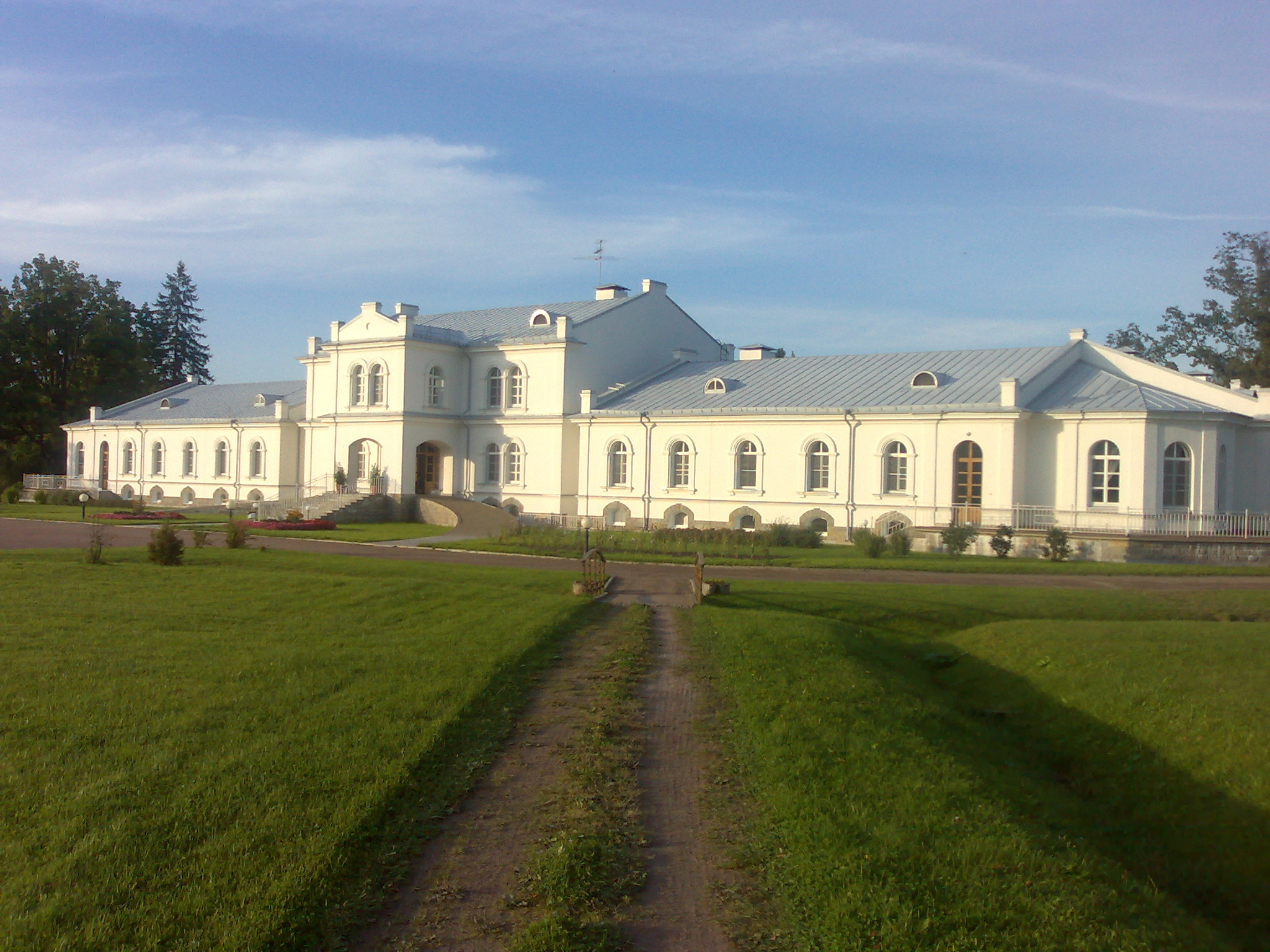 The geriatric home in Pogi